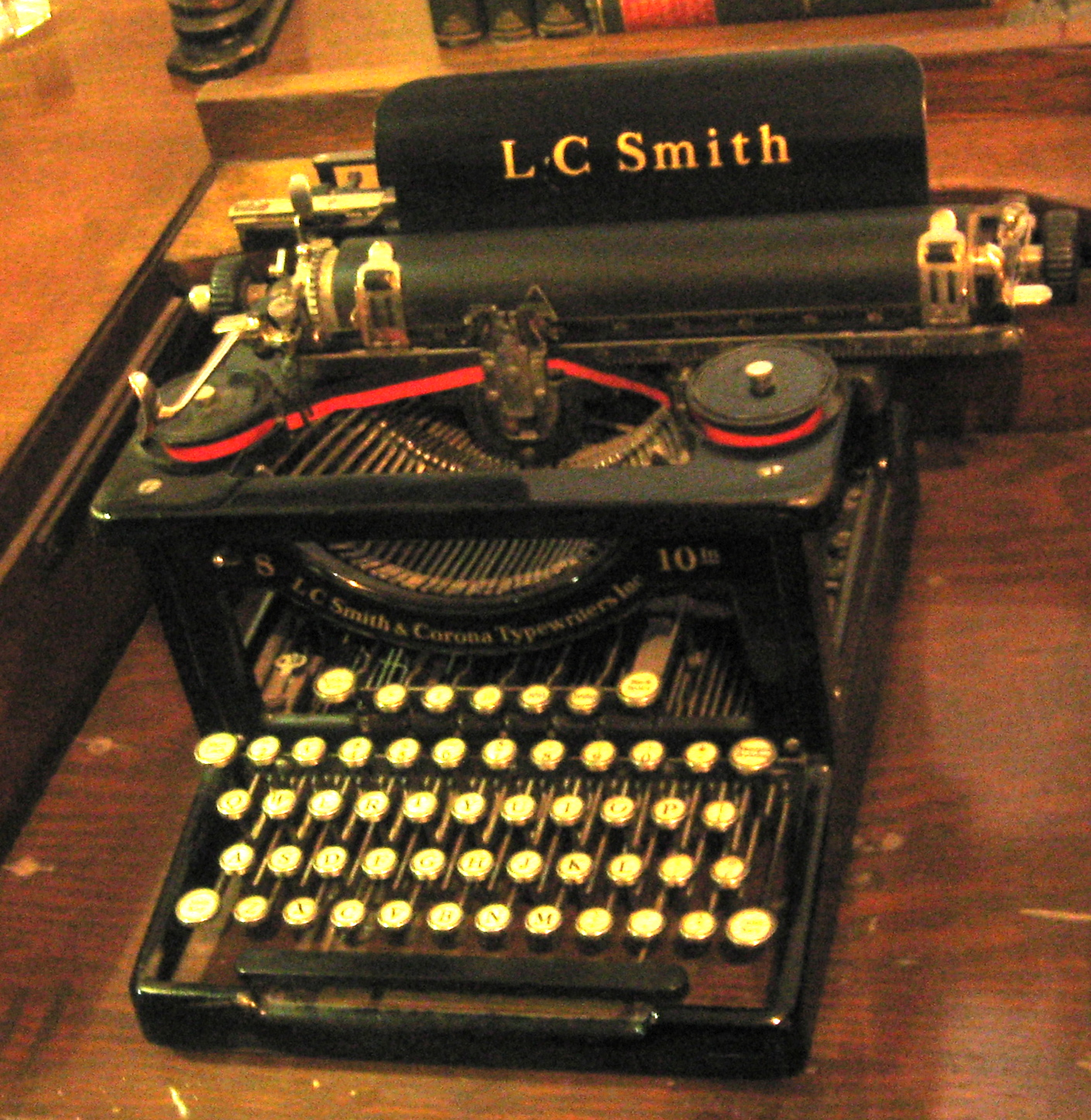 1890s L. C. Smith typewriter machine, shot at Western Development Museum, Saskatoon